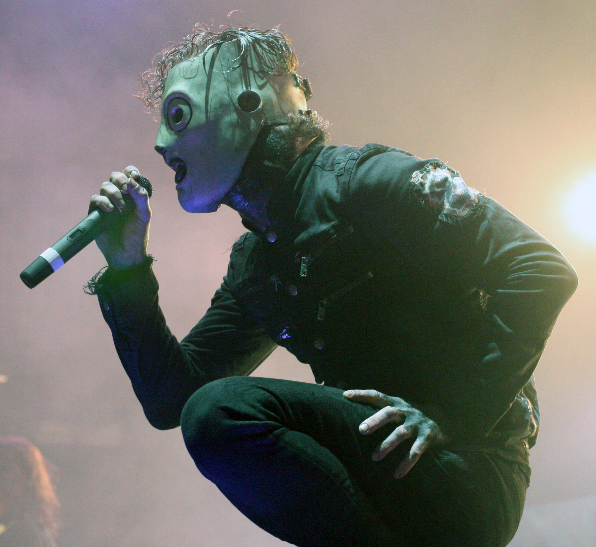 Corey Taylor of Slipknot performing on the Mayhem Festival 2008.